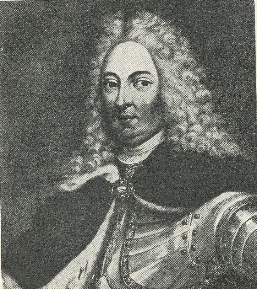 Ferdinand Kettler. Duke of Courland and Semigallia.